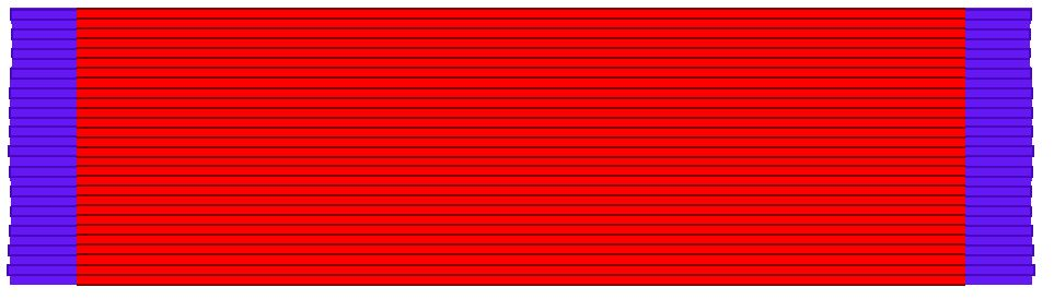 My own drawing. Ribbon Chrysanthemum Order Japan